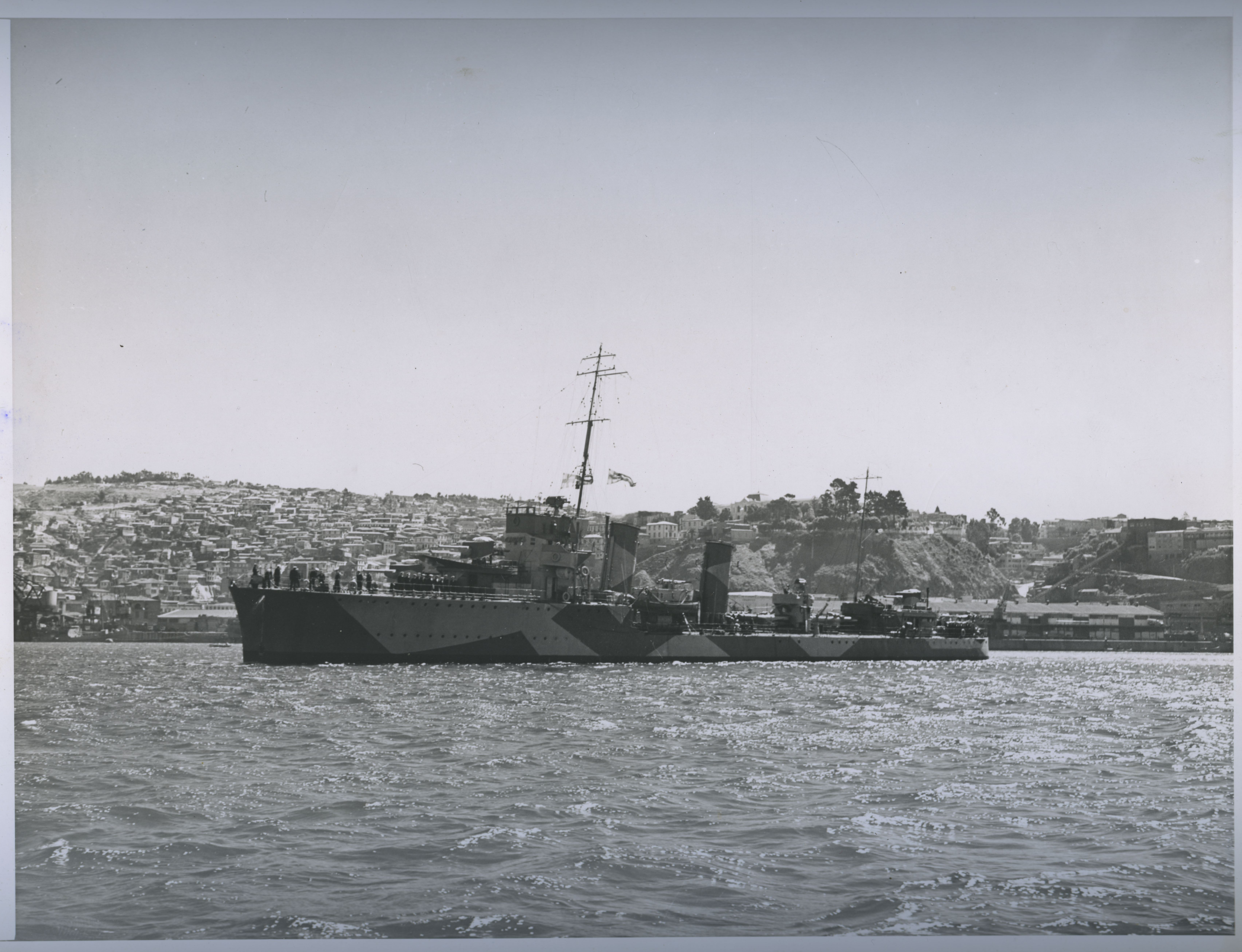 1421 - A Chilean destroyer ready for patrol duty